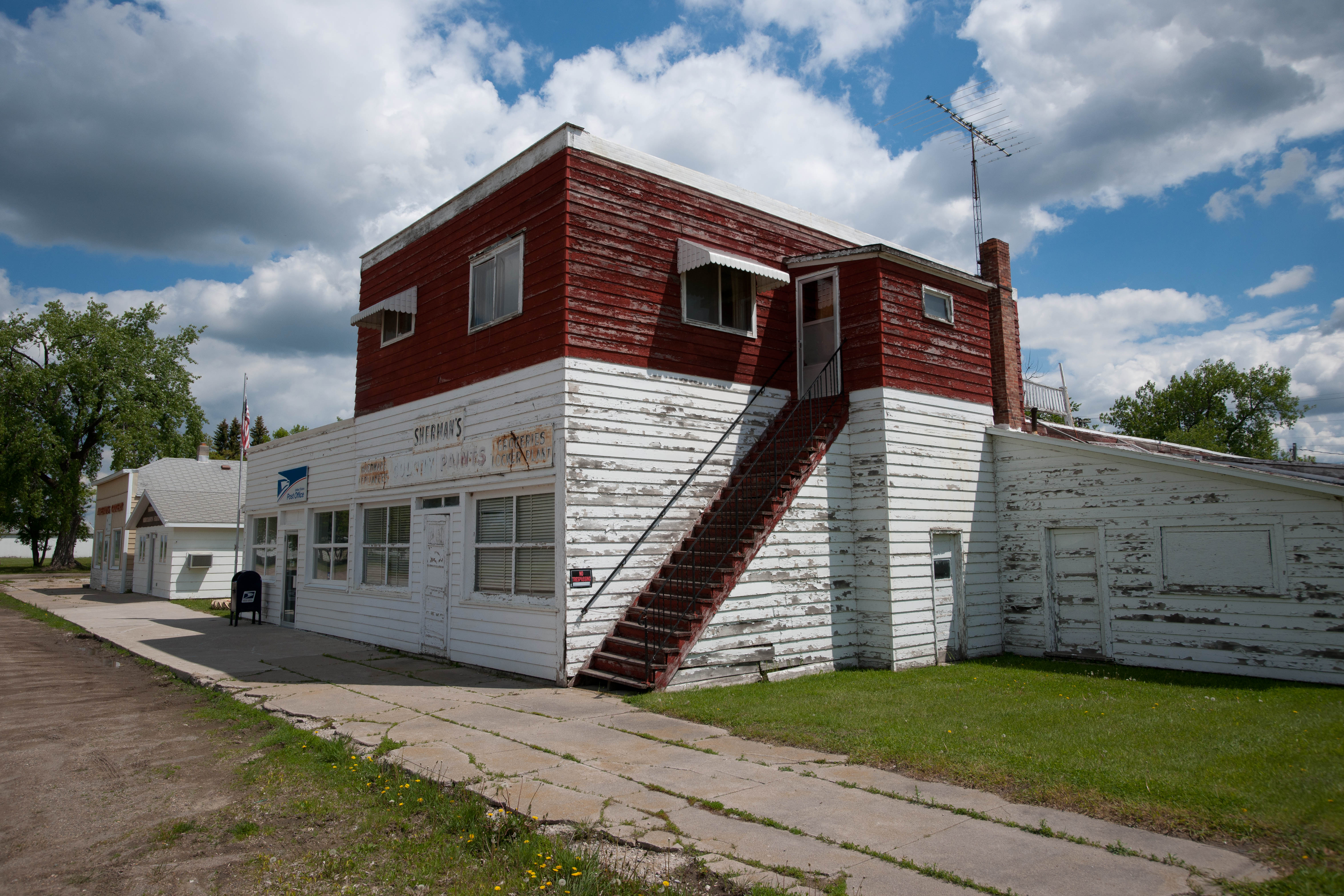 McHenry, North Dakota. From